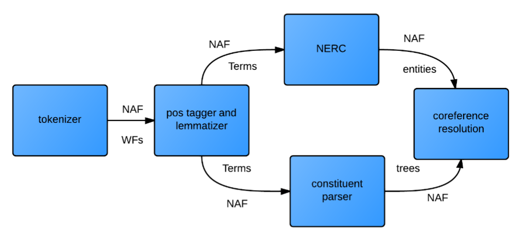 Architecture of Ixa pipes NLP tools.